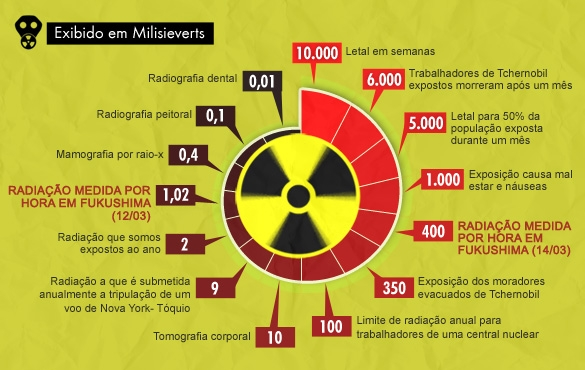 microsievert